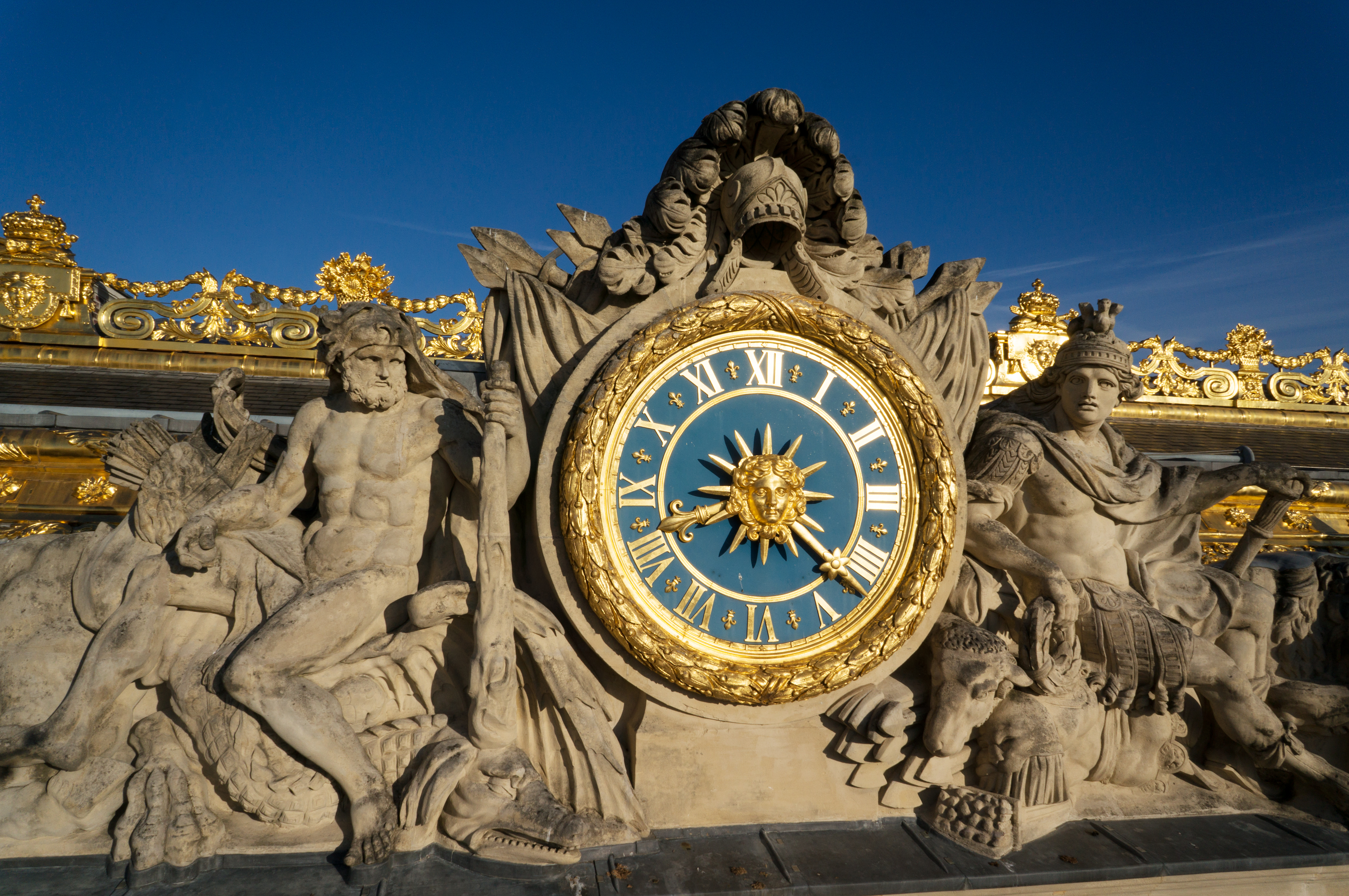 Aerial view of the Palace of Versailles, France. L’horloge de l'avant-cour est encadrée par les statues de Mars par Marsy et d’Hercule par Girardon.